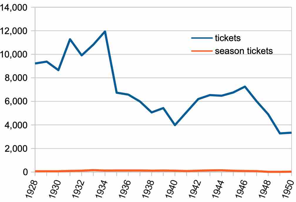 Okahukura railway station passenger use 1928-1950 based on Statements of Traffic and Revenue for each Station for the Years ended 31st March